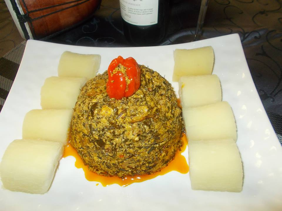 This is an image of food from Cameroon